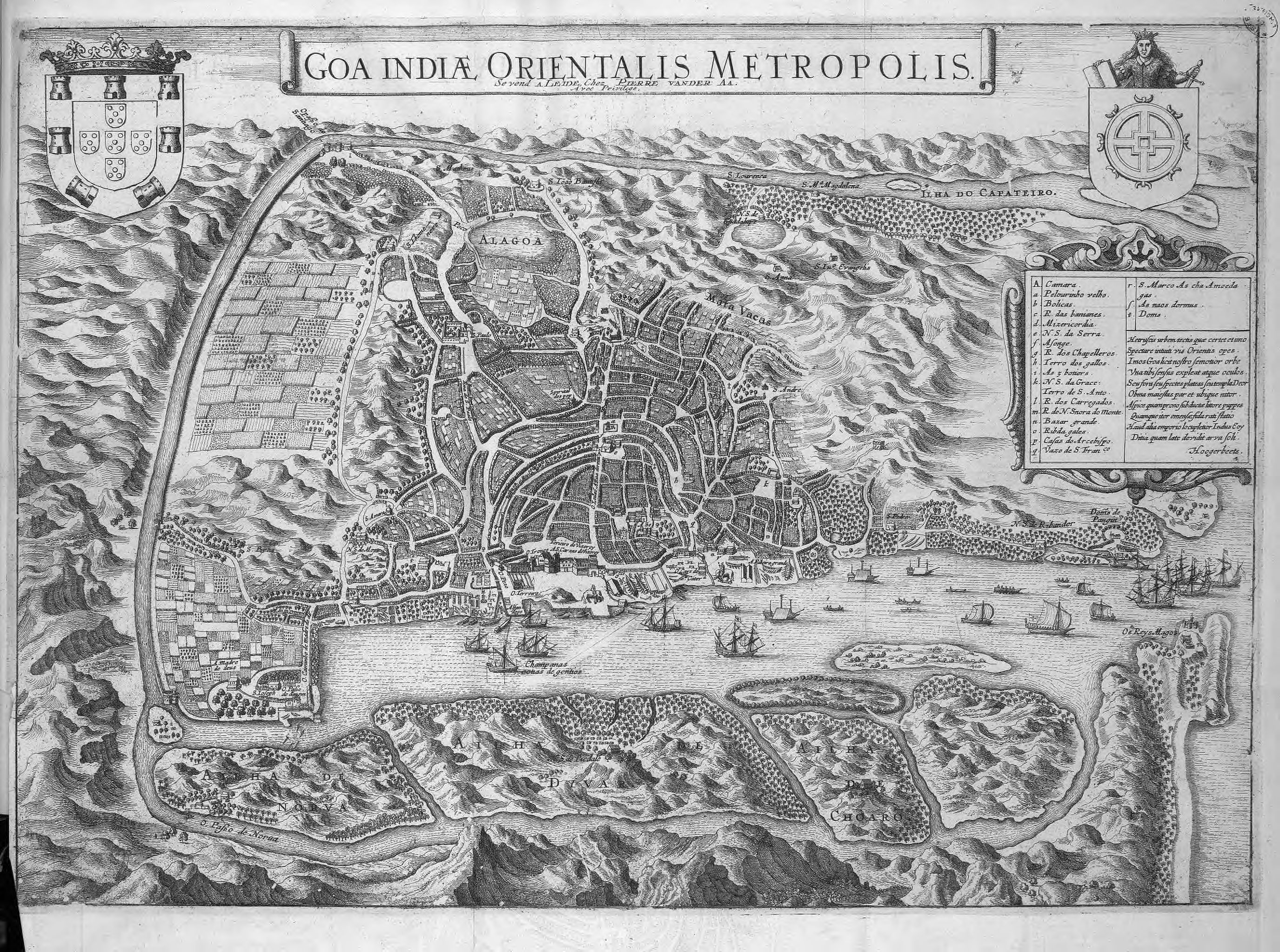 Goa, Indiae Orientalis Metropolis.